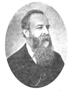 Edward Thomas Loseby (1817-1890), Clockmaker